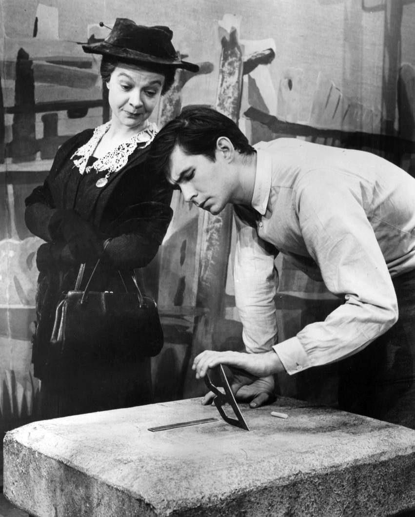 Photo of Jo Van Fleet and Anthony Perkins in the Broadway play Look Homeward, Angel.